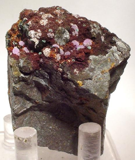 Strengite, Beraunite, Hematite Locality: Leveäniemi Mine, Svappavaara, Kiruna district, Lappland, Sweden (Locality at ) Lustrous, lavender spheres to 3 mm of the uncommon phosphate strengite are scattered in a vug atop massive hematite along with radial rosettes of beraunite from the Leveaniemi iron mine of Sweden. These specimens were collected in the mid-1980s and the mine is now closed. See the Mineralogical Record article in Vol. 20, No. 5, 1989. 5.5 x 4.5 x 3.8 cm